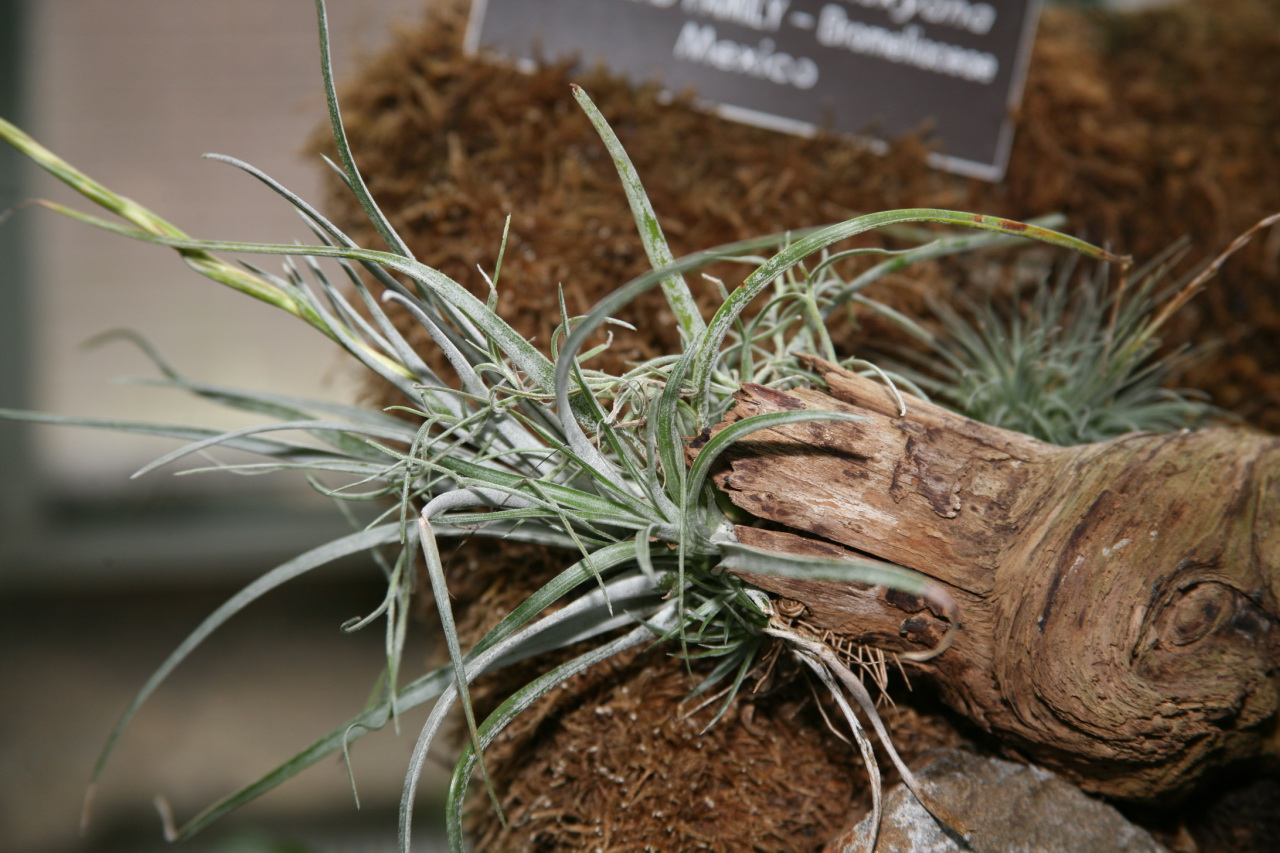 Tillandsia karwinskyana Member of the Bromeliad family - Bromeliaceae